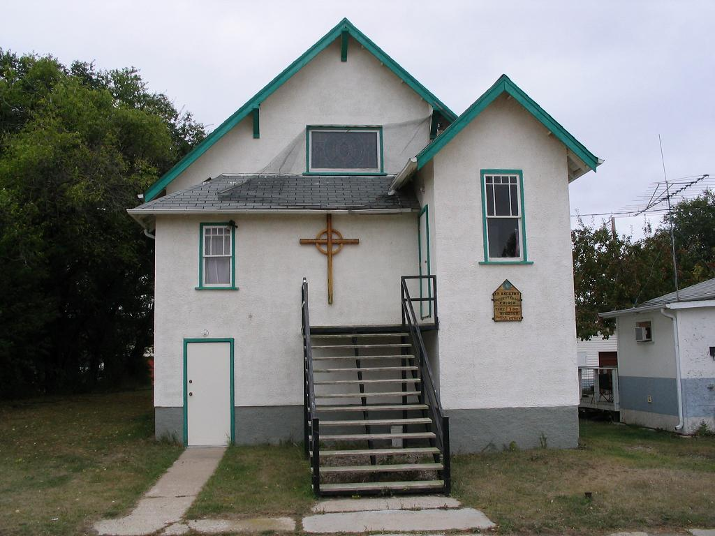 A substantial minority of the congregation of Knox Presbyterian withdrew after June 10, 1925 when it became part of the new United Church of Canada. They established St. Andrew's continuing Presbyterian on Main Street, sharing a minister with Indian Head.